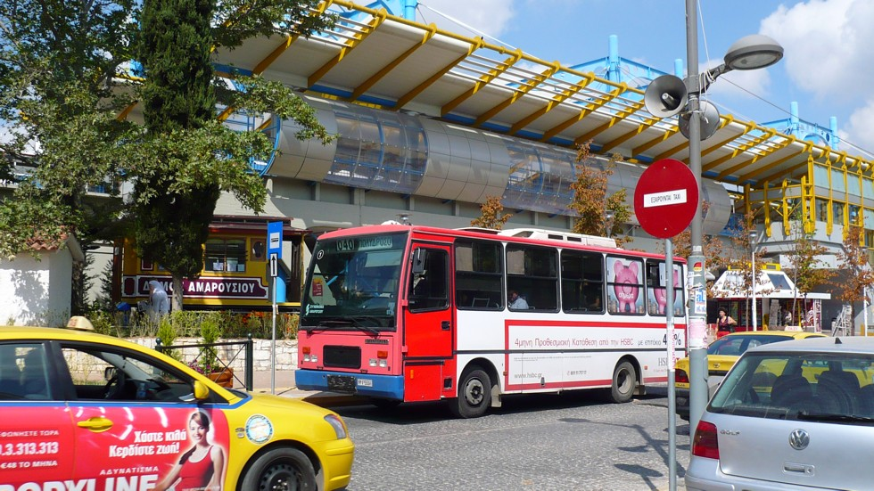 Center of Maroussi